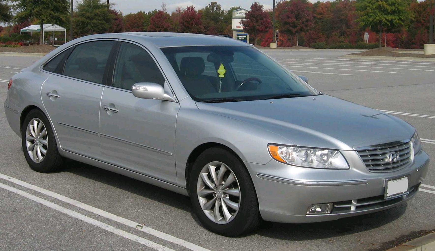 2006-2008 Hyundai Azera photographed in Accokeek, Maryland, USA.